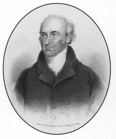 Sir Astley P. Cooper, English surgeon and anatomist.